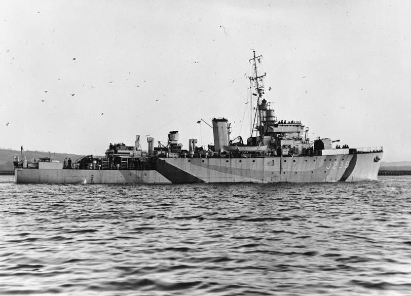 Photograph of British Algerine class minesweeper HMS Rifleman.